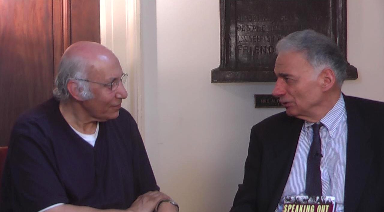 Ralph Nader & Farouk Abdulaziz